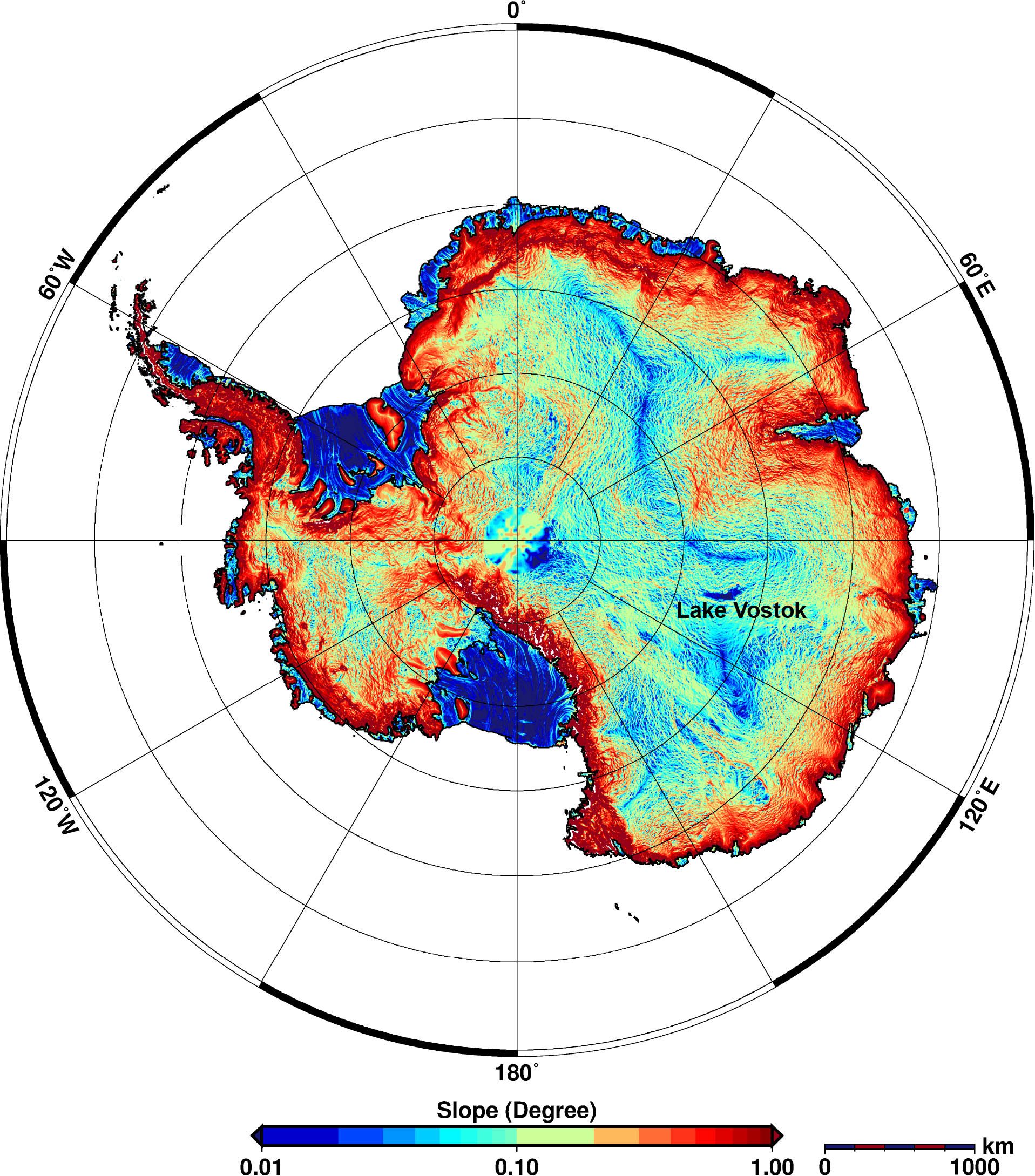 Surface slopes of Antarctica